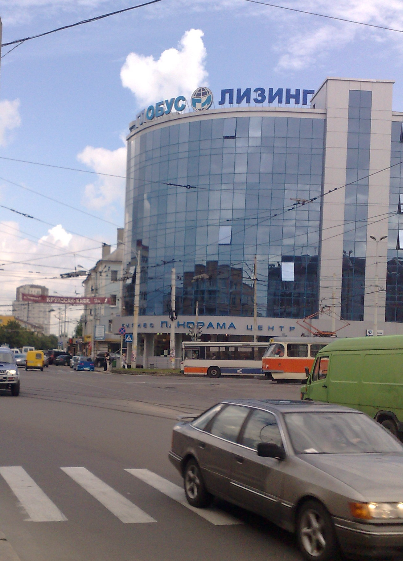 Bagration street in Kaliningrad